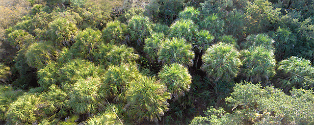 Found in Myakka River State Park, Florida